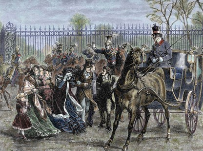 Louis Philippe and the French royal family fleeing the Palace of Tuileries during the French revolution of 1848